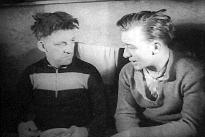 Hall of Fame six day bicyclist Reggie Mcnamara with his partner Eddie Seufert at Madison Square Garden in 1934.